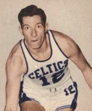 Professional basketball player Arthur Spector